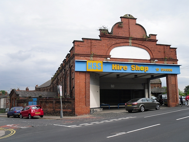 Former tram shed, London Road, Data from Geograph: Description: This was originally the depot for the City of Carlisle Electric Tramways Company, which started operating services in 1900. Trams in Carlisle were never financially successful, being generally regarded as noisy and slow. They were... more ICBM: 54.886338030214, -2.9212443558933 Location: (about 1 km from) near to Carlisle, Cumbria, Great Britain.